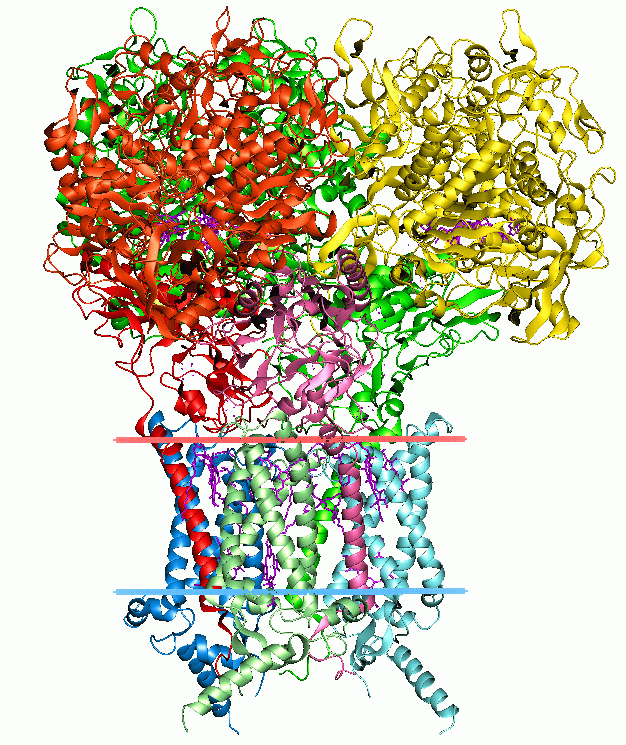 Protein image from OPM database